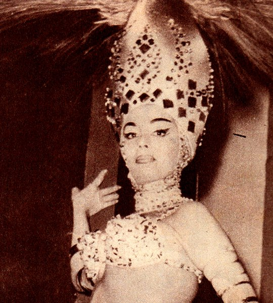 Maruja Montes- actriz y vedette